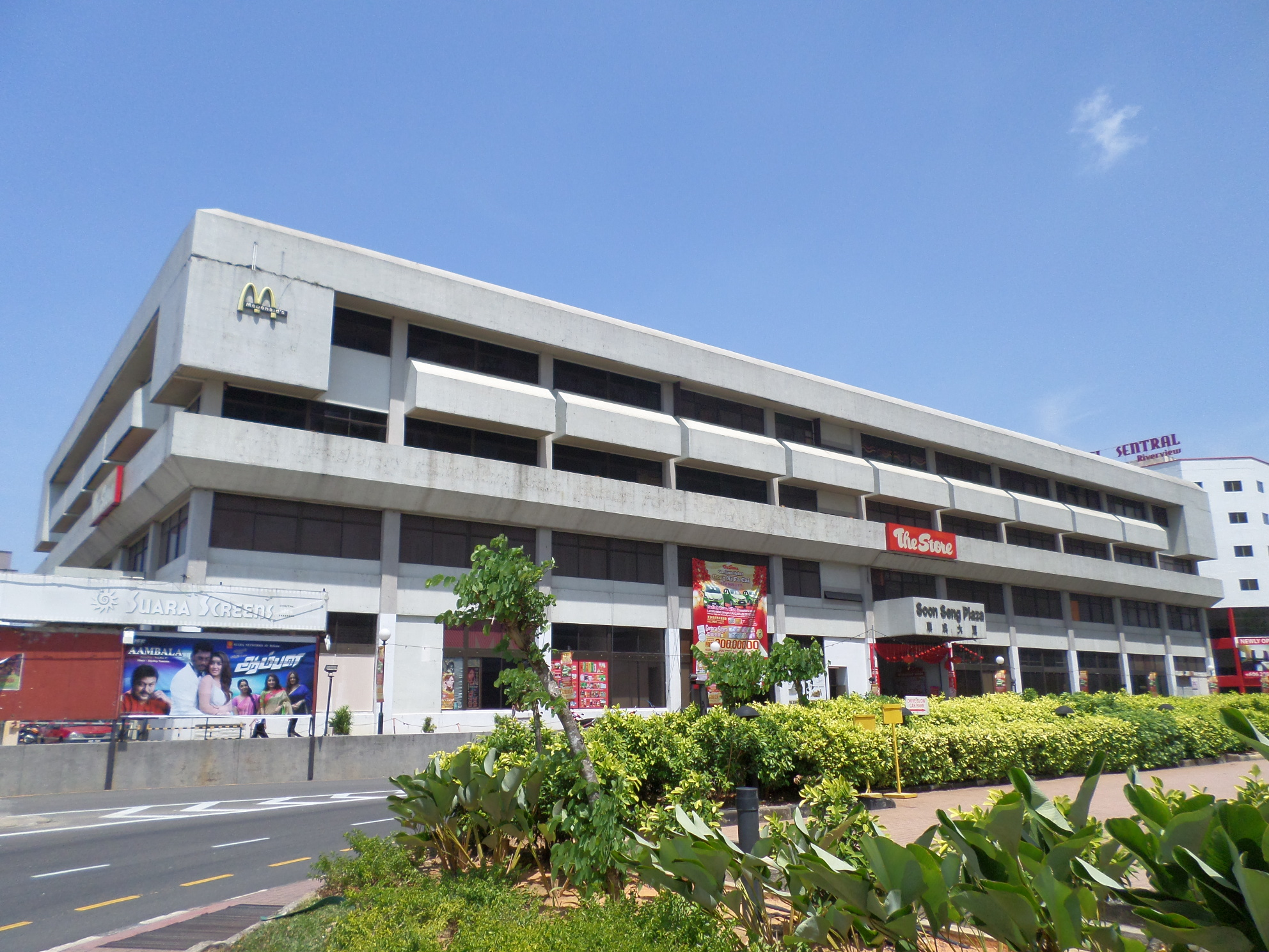 Soon Seng Plaza, Malacca City, Malacca, MalaysiaBahasa Melayu: Plaza Soon Seng, Bandaraya Melaka, Melaka, Malaysia